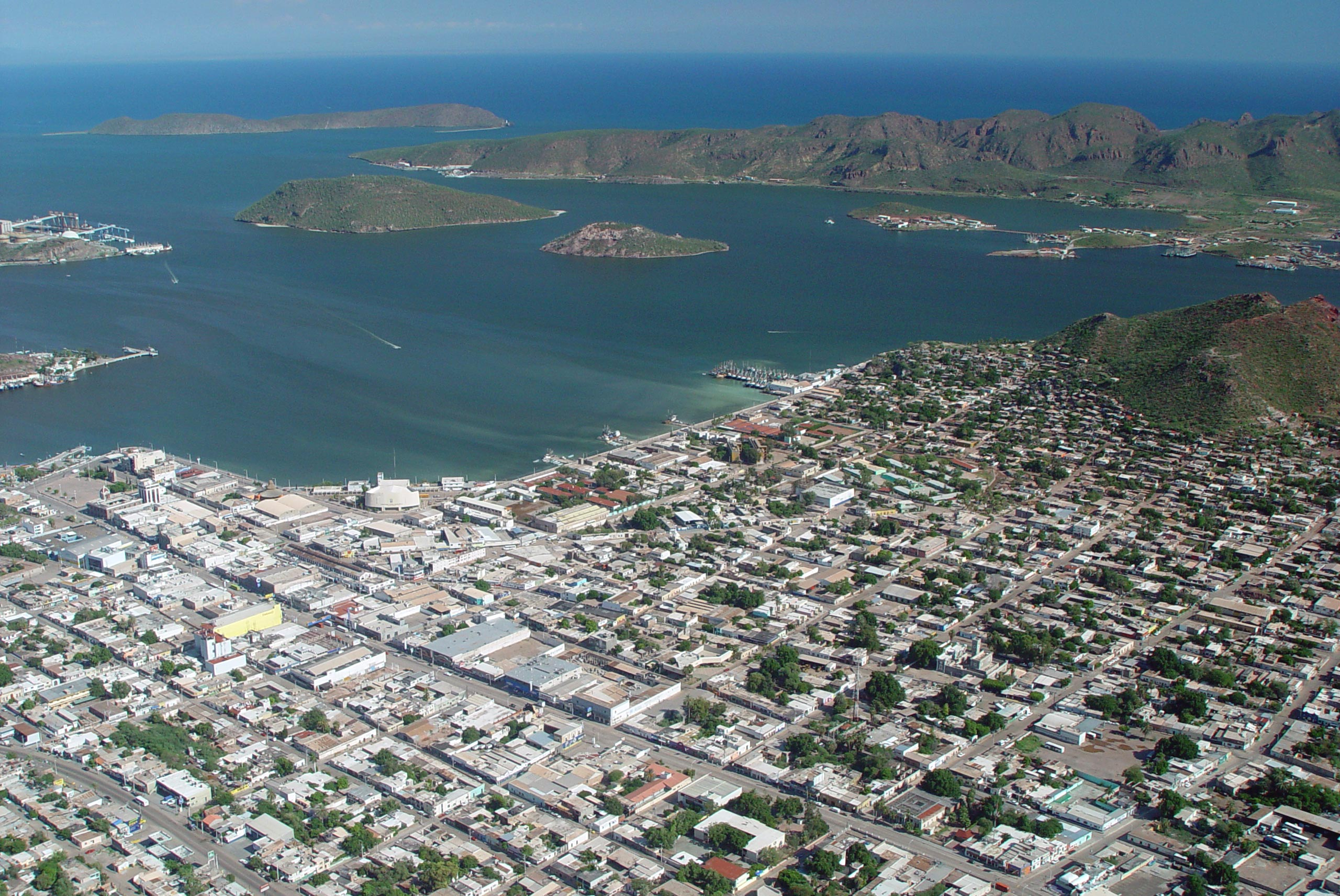 Aerial View of Guaymas, Sonora, México.